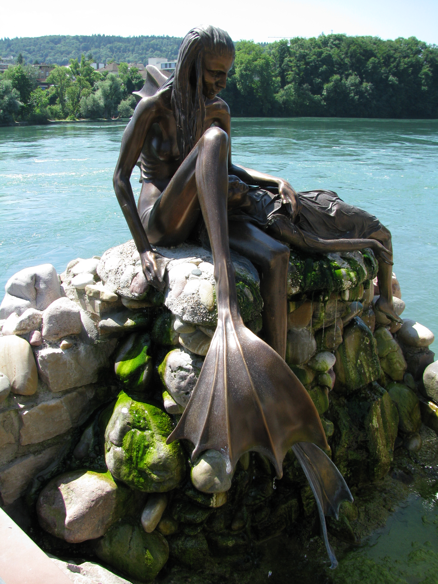 St. Anna sculpture near the old Rhine bridge in Rheinfelden (Baden)